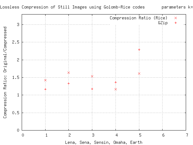 I created this image using my Rice Algorithm code & used Gzip scripts. Format This graph image could be recreated using vector graphics as a SVG file. This has several advantages; see Commons:Media for cleanup for more information. If an SVG form of this image is available, please upload it and afterwards replace this template with vector version available|new image name.svg .